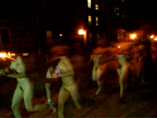 A group of people Streaking.